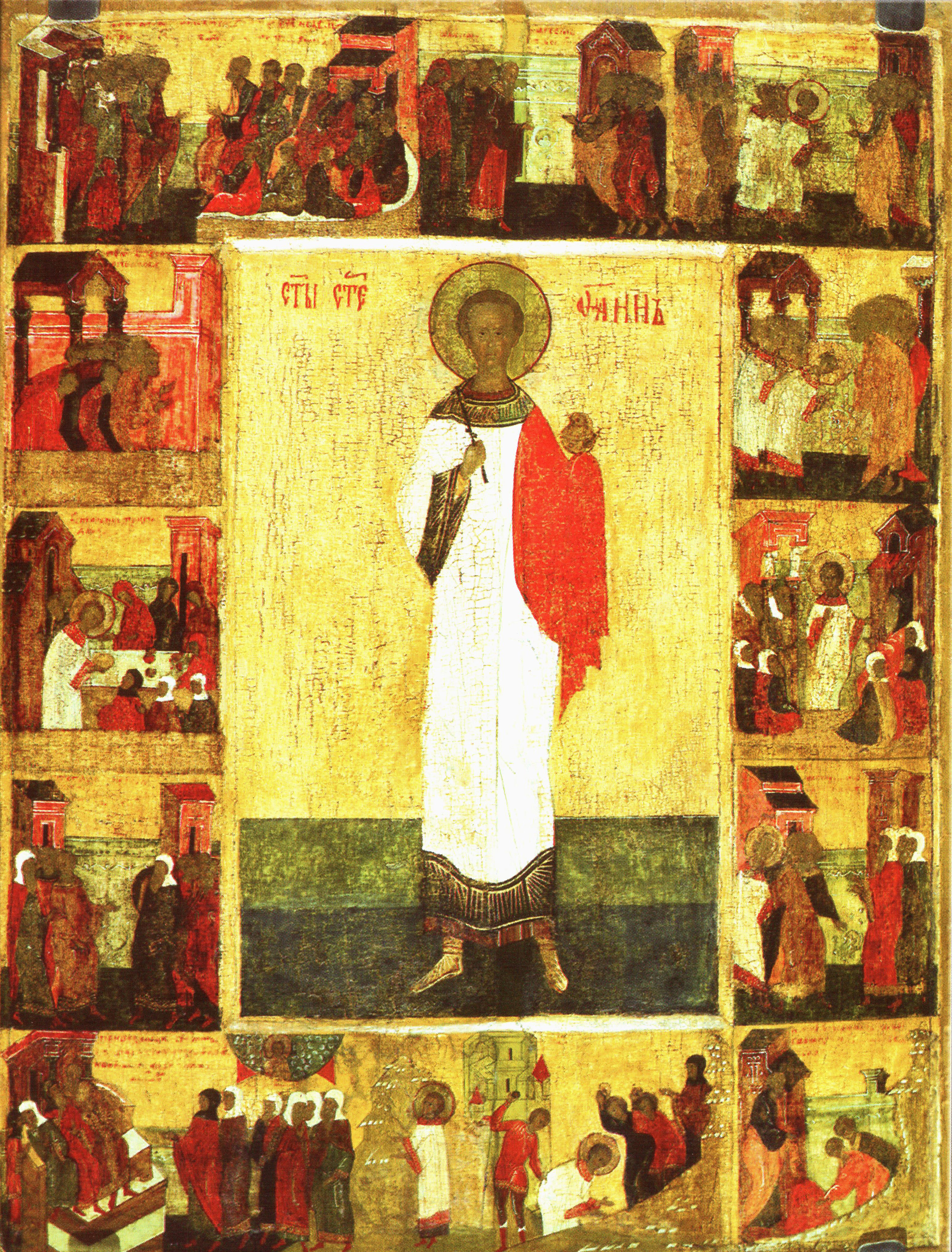 Saint Stephen Russian icon. 16 c. Wood. С(вя)ты(й) Стефанн (с житием). Русская икона 16 века на дереве. Местонахождение иконы не указано.